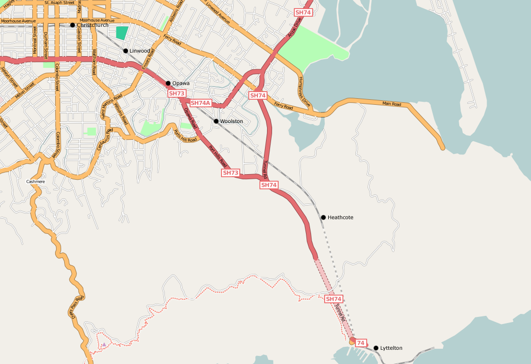 Map of the Lyttelton Line route from Lyttelton to Christchurch. This map may be incomplete, and may contain errors. Don't rely solely on it for navigation.